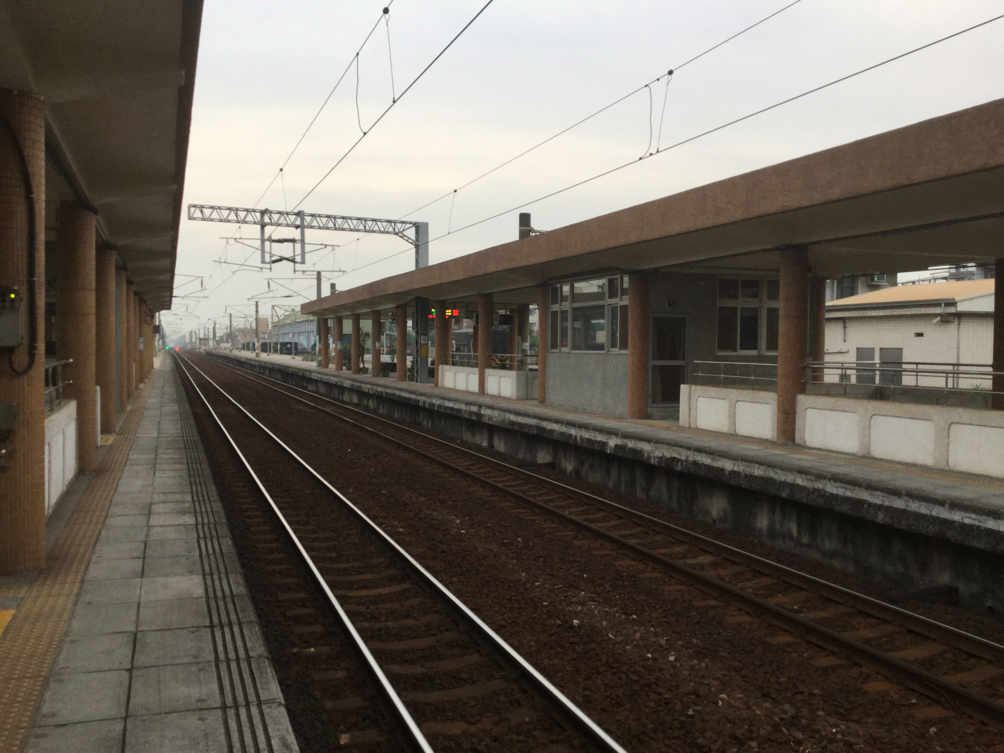 TRA Jiuqutang Station Platform